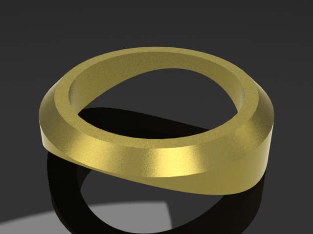 Picture of a single weldolet